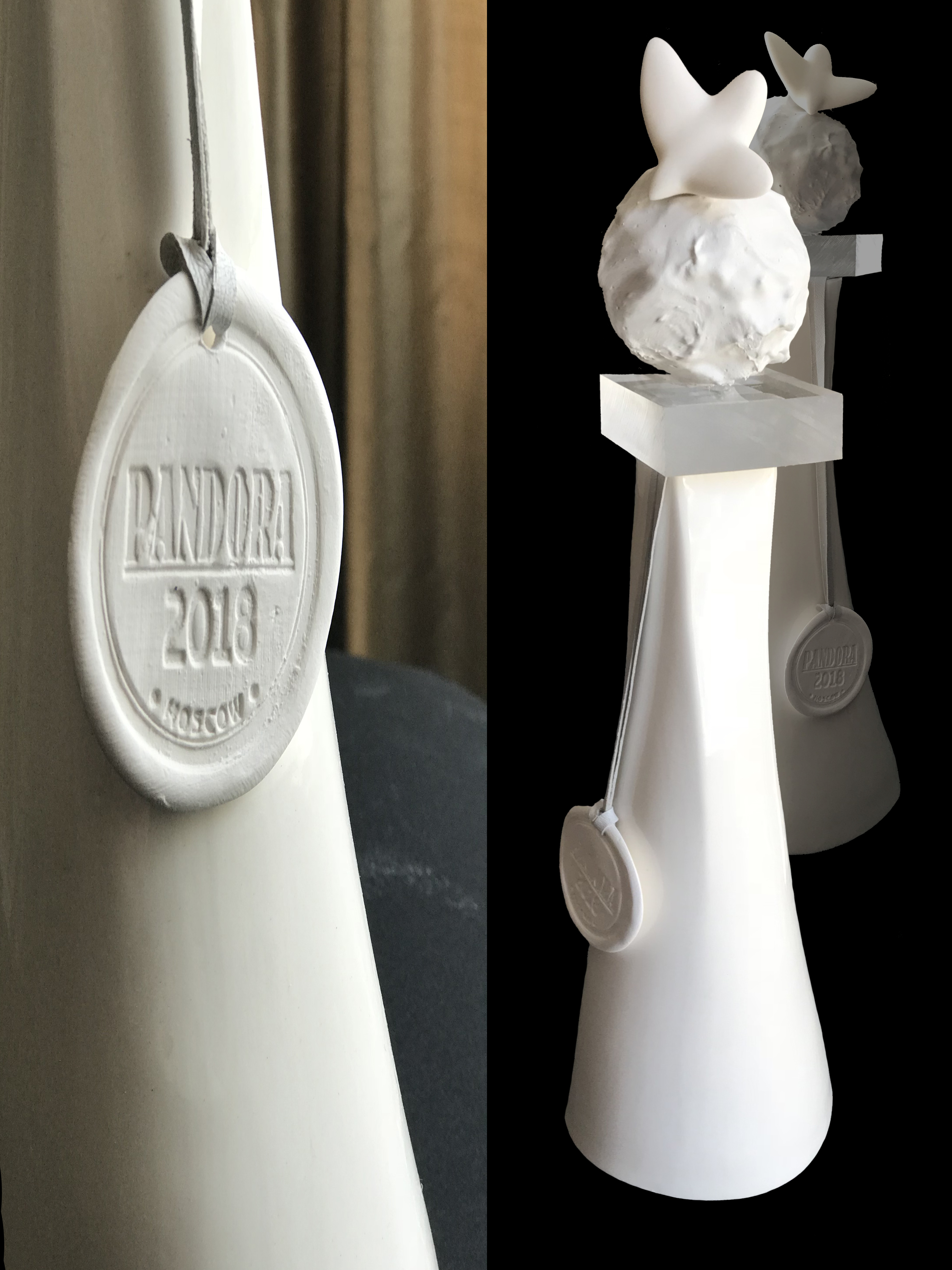 Prix Pandora Platinum 2018 by Inga Ivashchenko